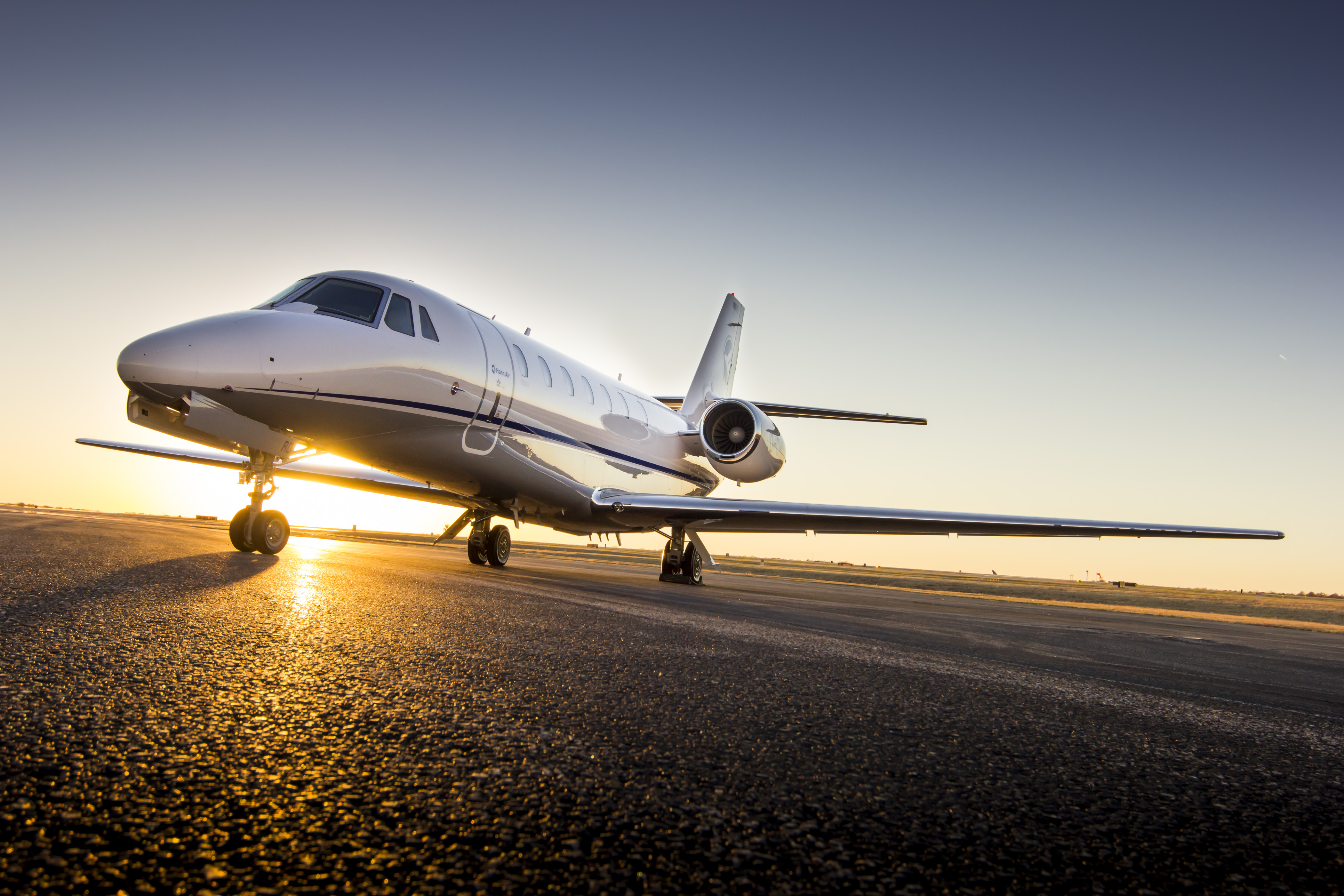 Cessna Citation Sovereign of Hahn Air in Wichita, USA.